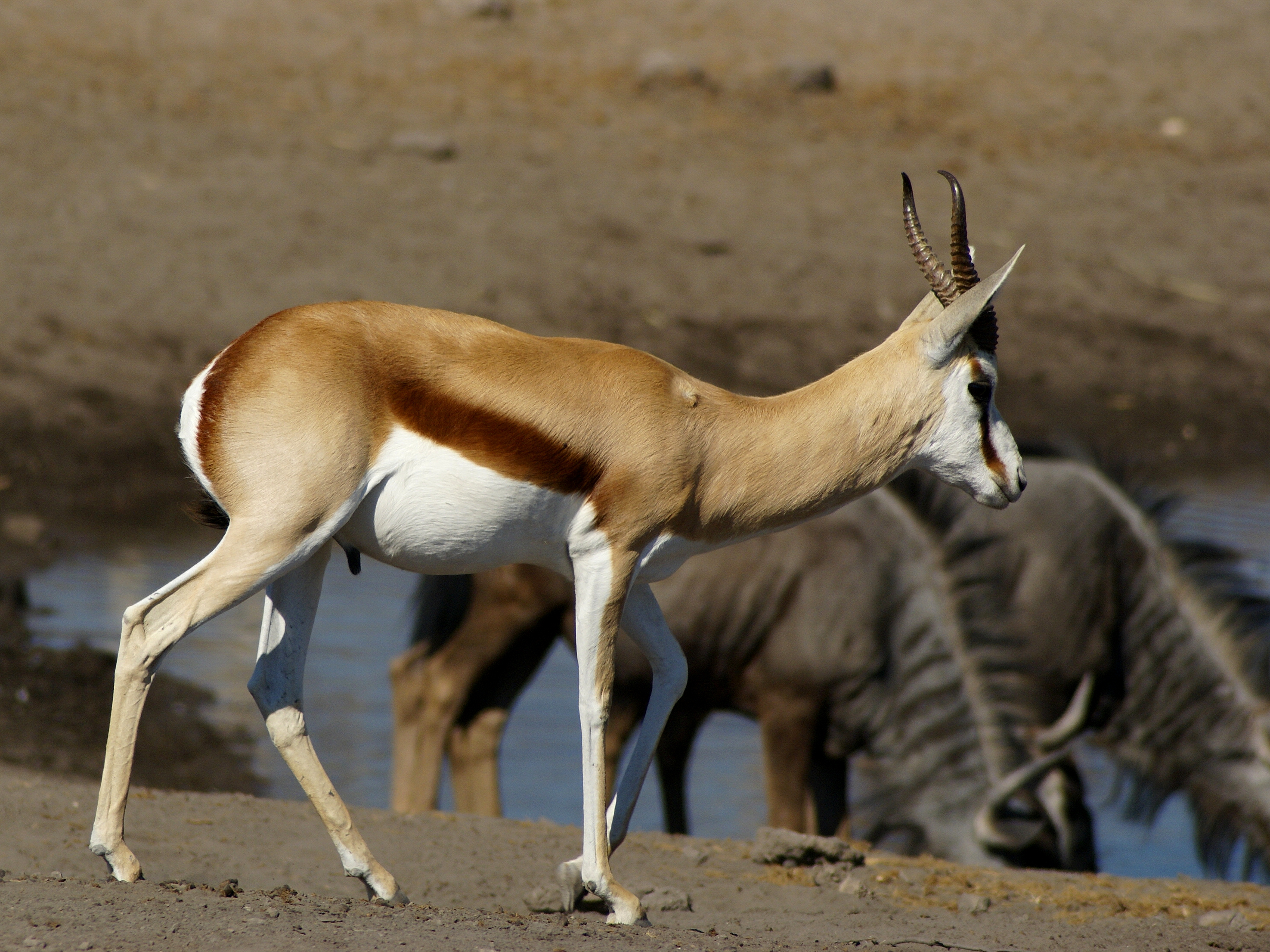 A Springbok ram at Chudop waterhole, eastern Etosha National Park, Namibia